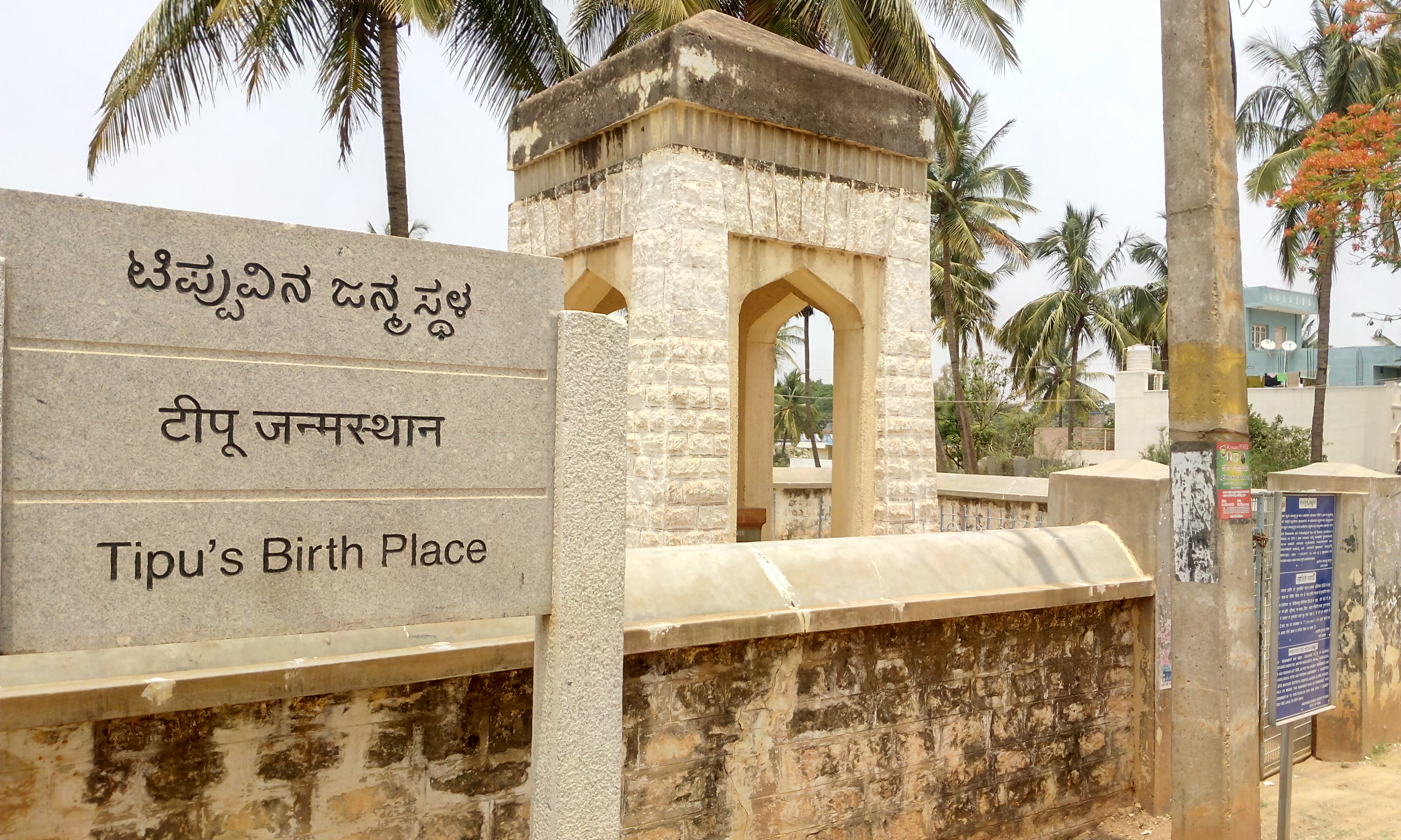 Tippu Birthplace